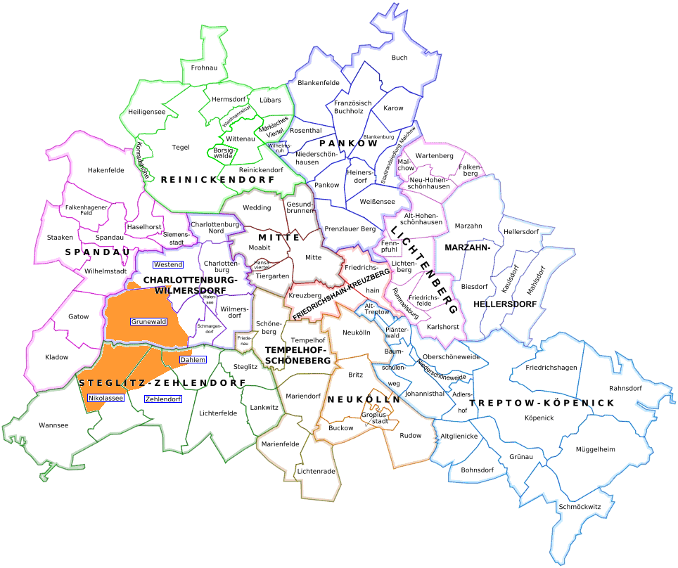 Locator map of the Grunewald forest (shown in orange) in Berlin. The localities of Grunewald, Nikolassee, Zehlendorf, Dahlem and Westend, which guest the forest, are underlined in blue